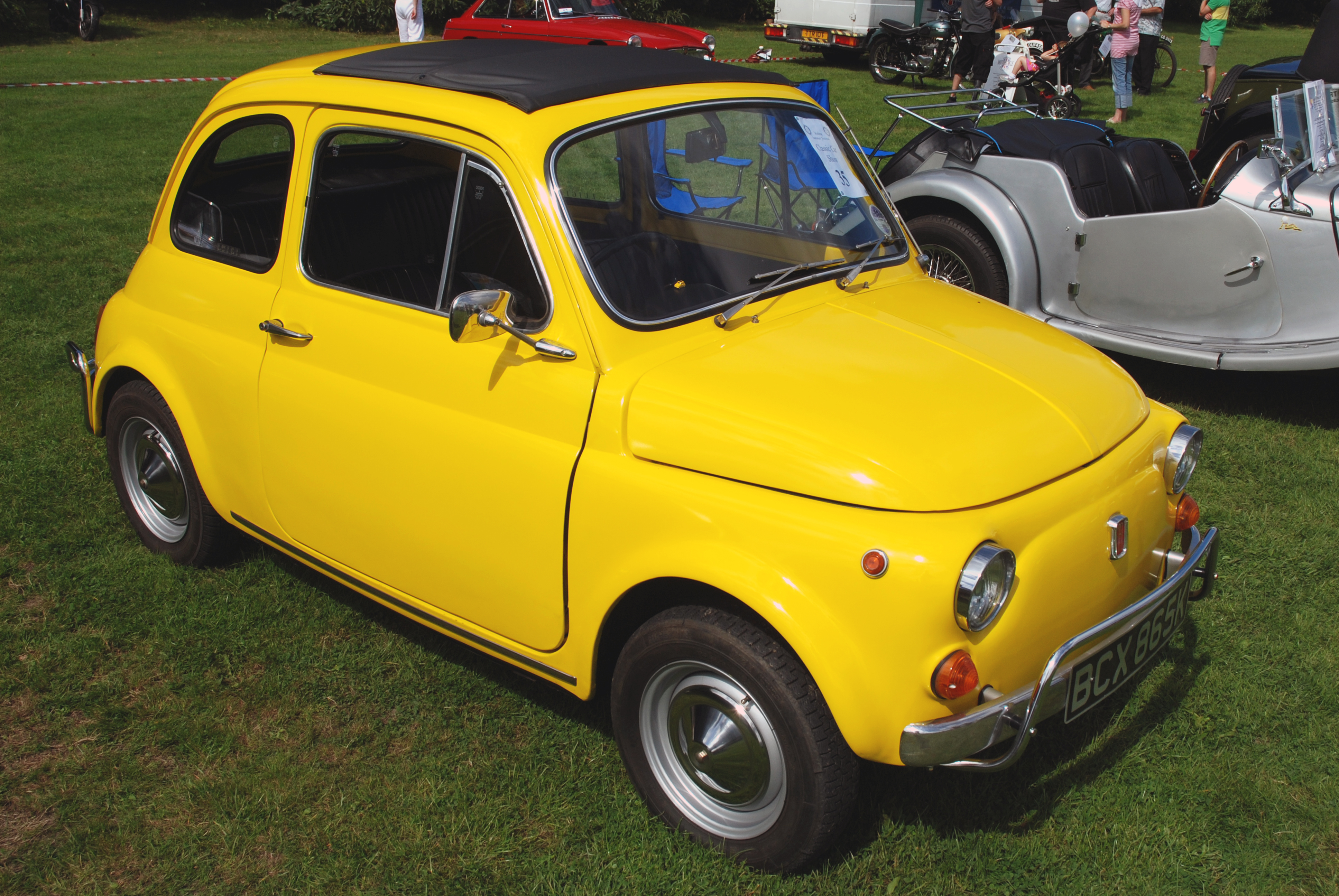 @ Woking Summer Festival Aug 2007